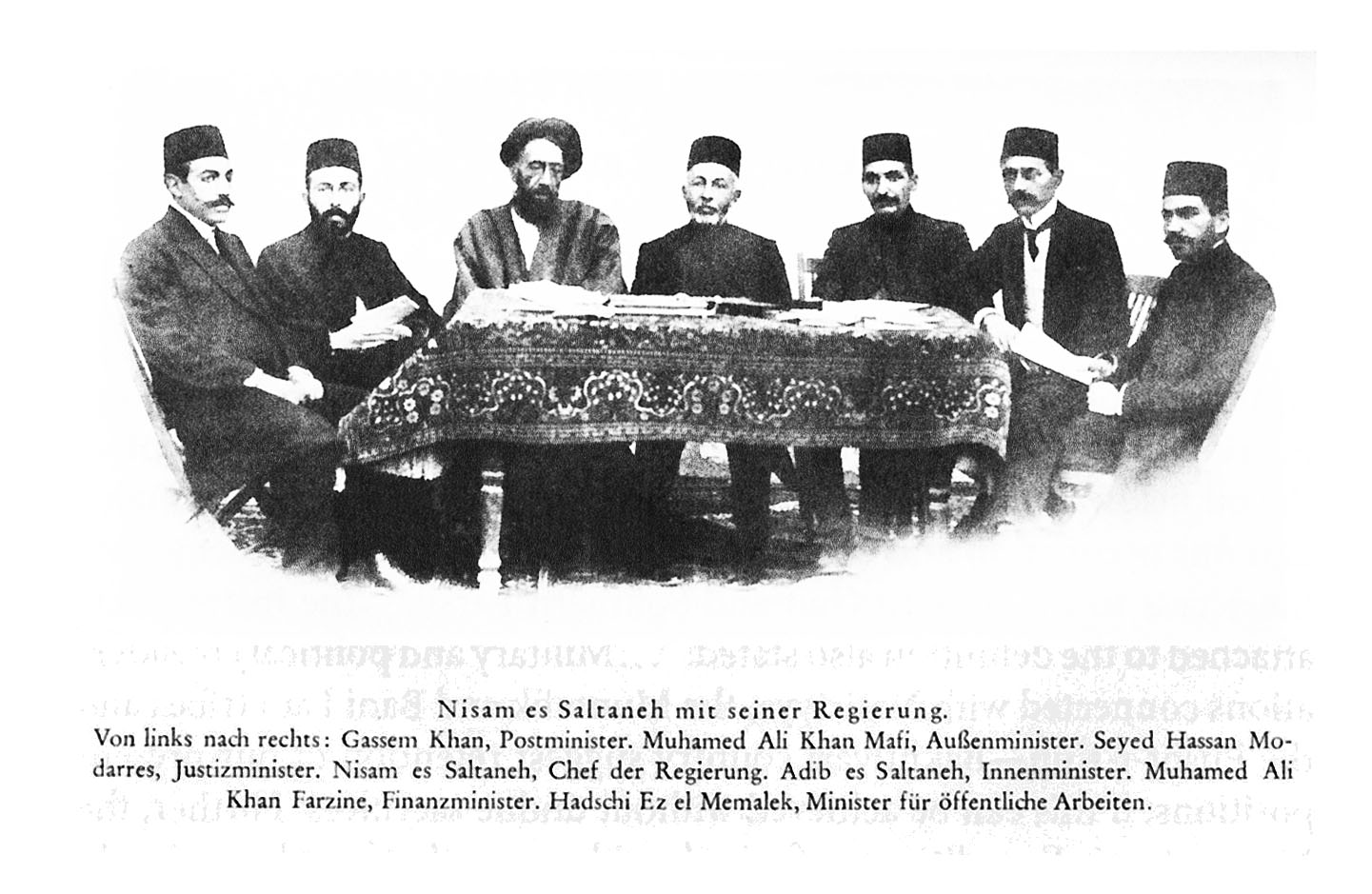 Nizam al-Saltana with his Government in Exile, 1915.